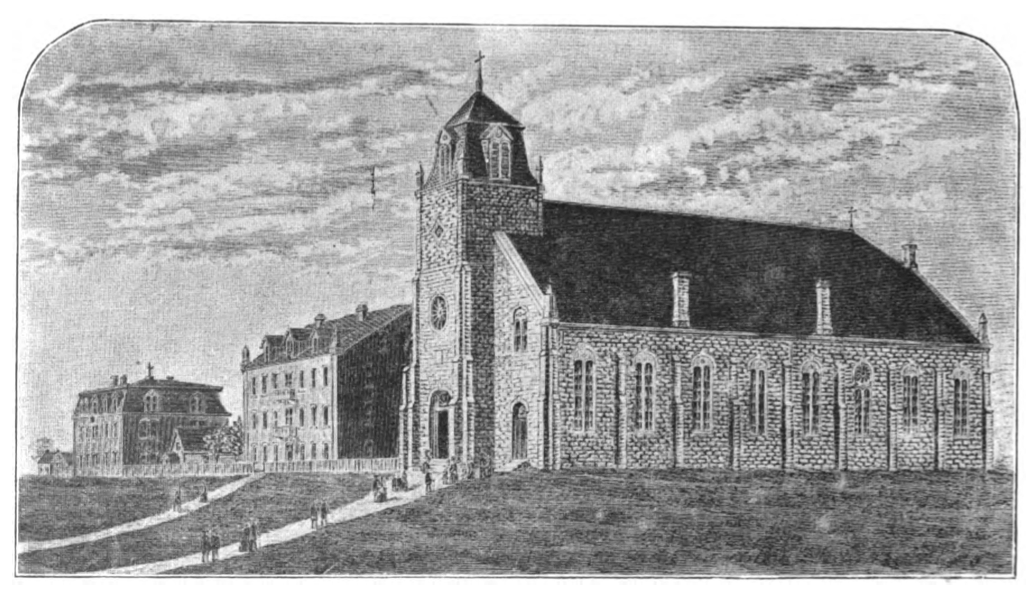 St. Francis church, monastery and school, Neosho County, Kansas, USA